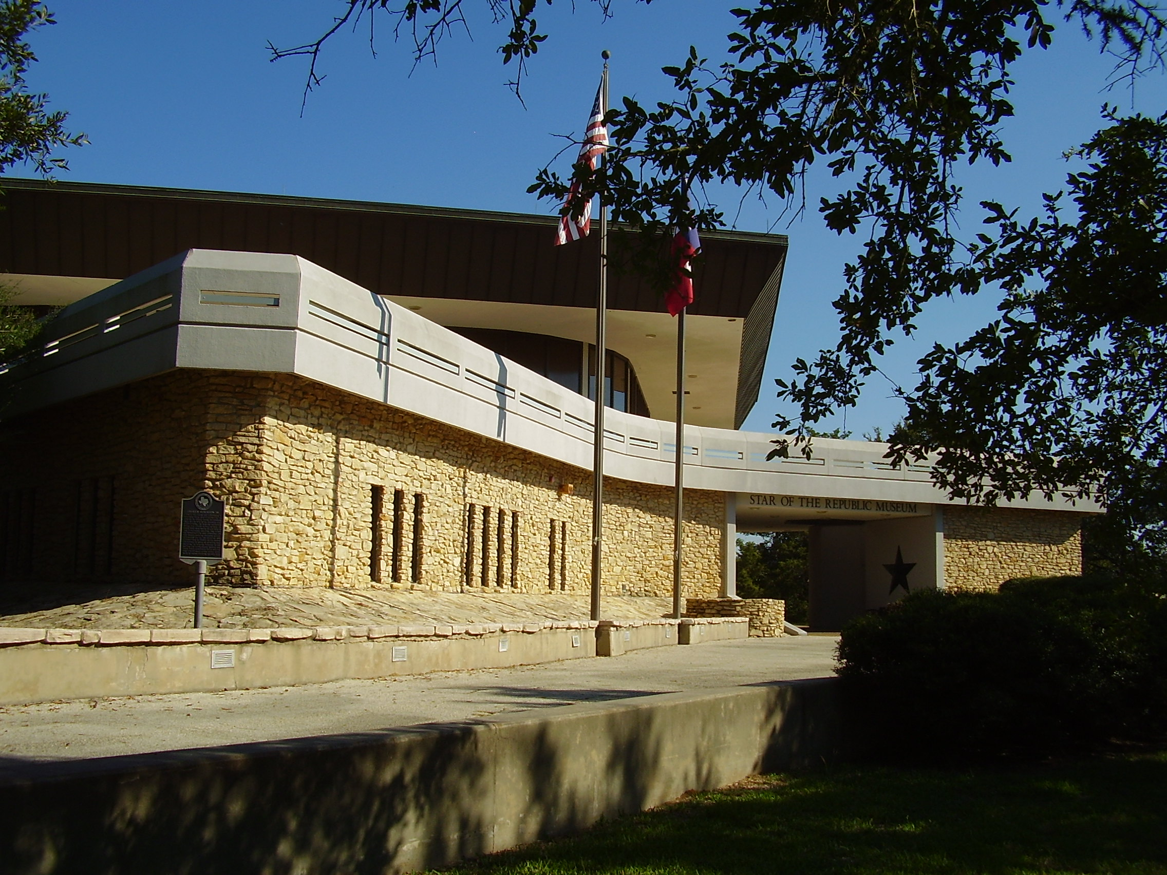 Star of the Republic Museum in the Washington-on-the-Brazos State Historical Park